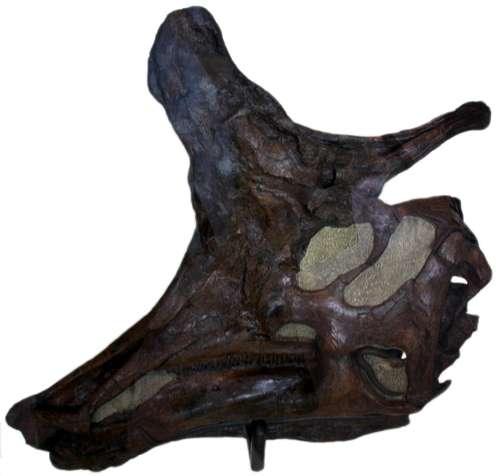 Skull of Lambeosaurus lambei specimen AMNH 5373 at the American Museum of Natural History.